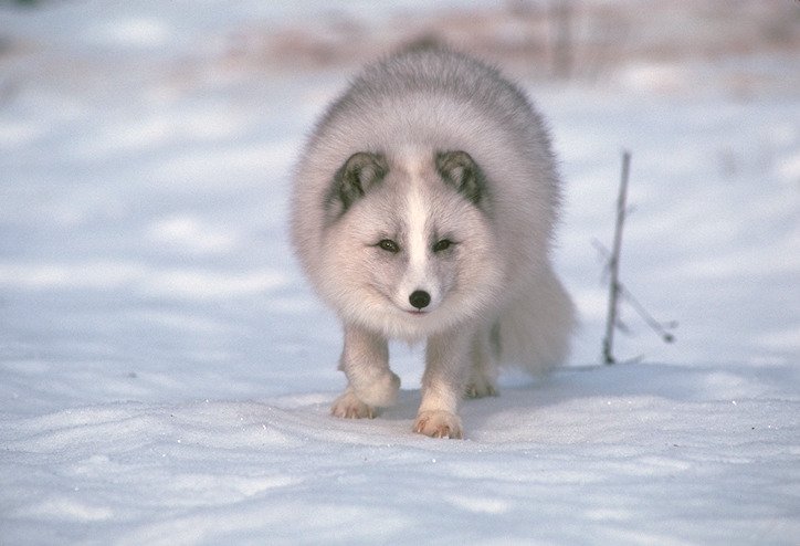 Arctic Fox, northern Canada